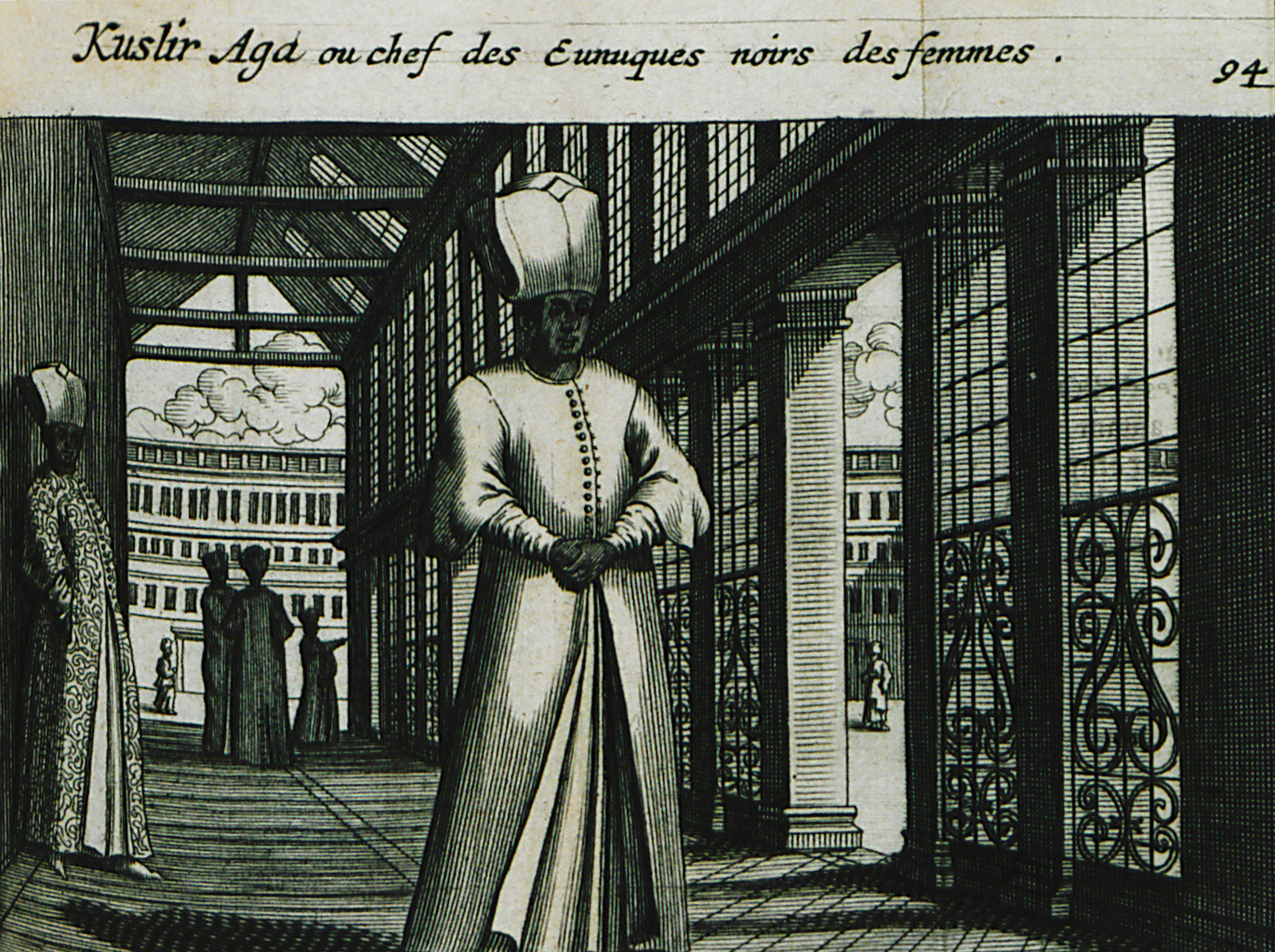 Kuslir Aga ou chef des Eunuques noirs des femmes - Rycaut Paul - 1670